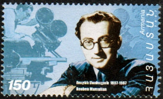 Rouben Mamoulian on a stamp of Armenia